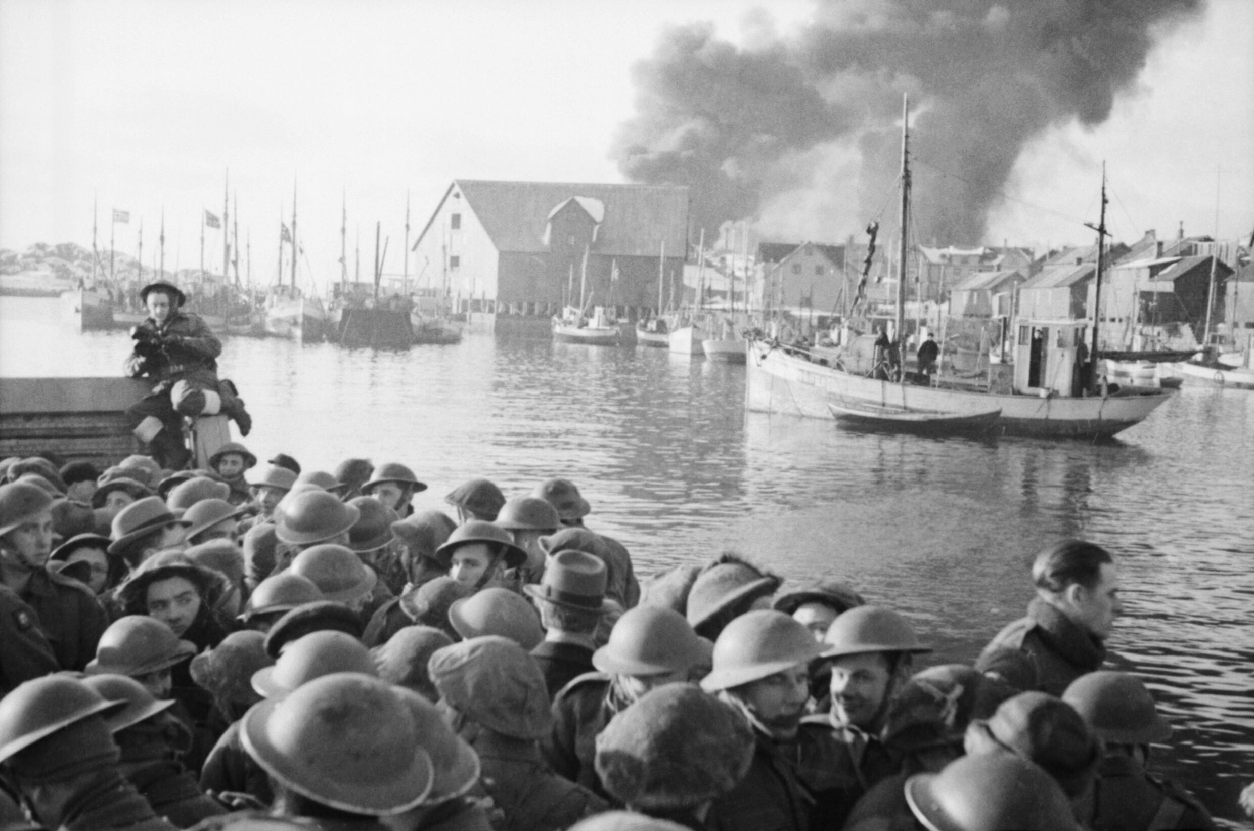 Raid on the Lofoten Islands, 4 March 1941 Fires burning in Stamsund as British commandos leave.